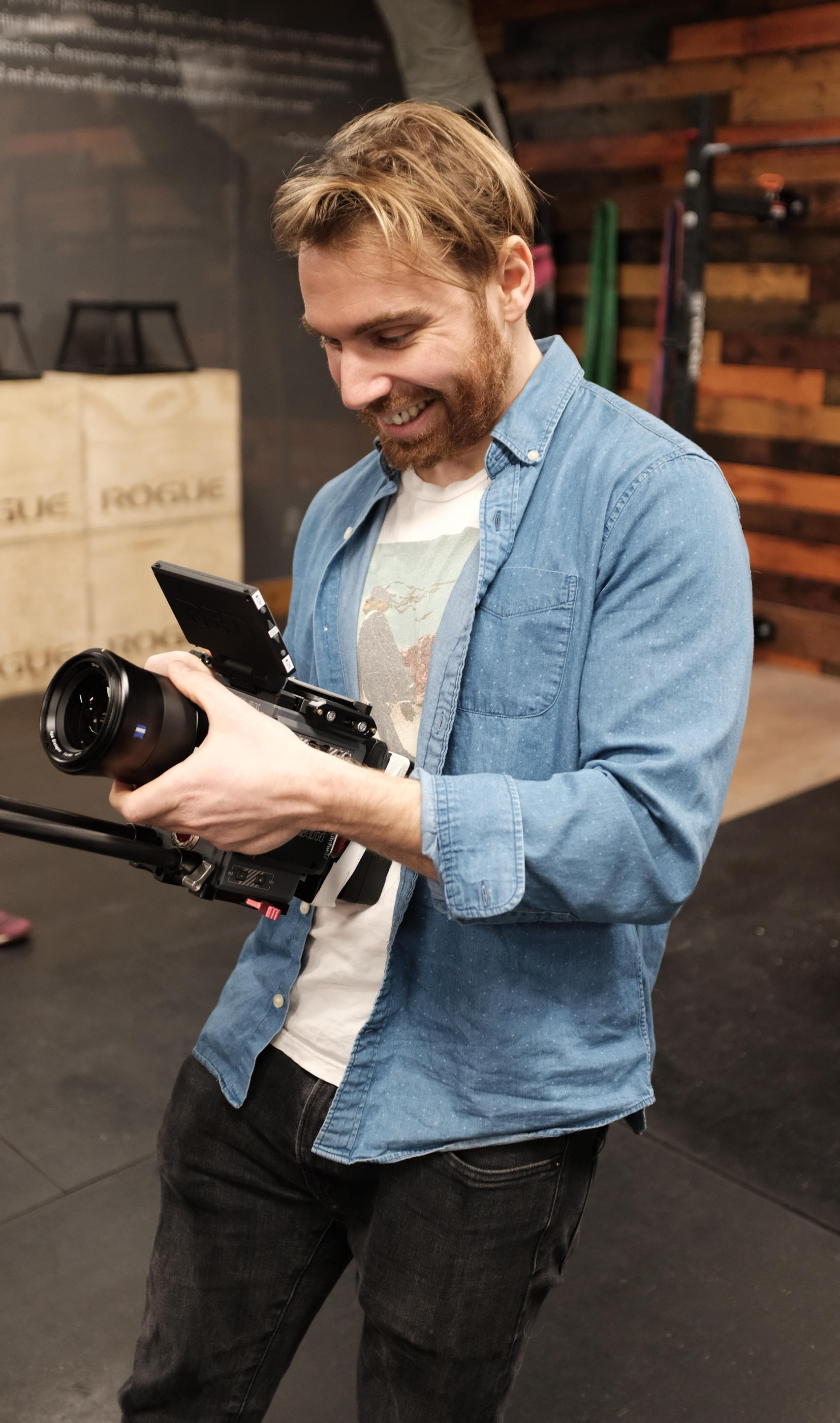 Danny Monico on the set of "Broken Wing"